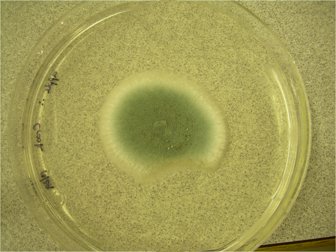 Penicillium digitatum growing on a potato dextrose agar plate. Identified using Barnett, H. L. & Hunter, B. B. (1998) Illustrated Genera of Imperfect Fungi. APS Press: St. Paul, MN; pp. 94–5 ISBN 0-89054-192-2. Recovered from a sweet orange (Citrus sinensis (L.) Osbeck). Host status confirmed using Farr, D. F., Bills, G. F., Chamuris, G. P., & Rossman, A. Y. (1995) Fungi on Plants and Plant Products in the United States. APS Press: St. Paul, MN; pp. 494–7 ISBN 0-89054-099-3.